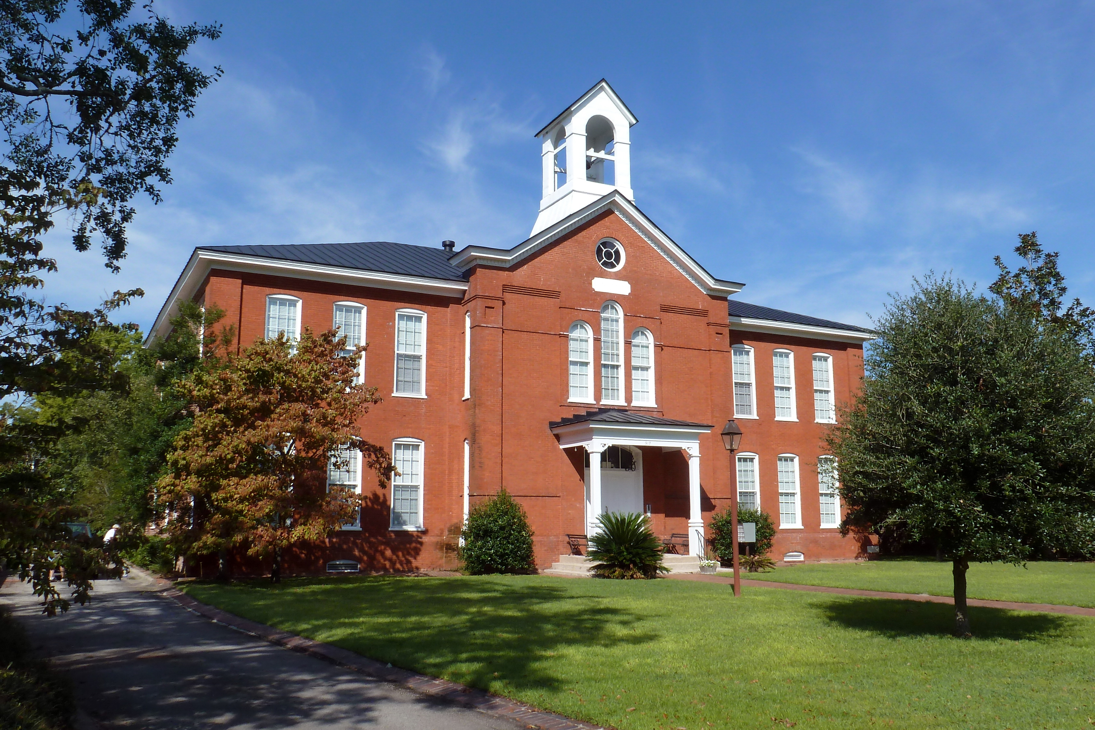 Central Elementary School. This is the second building used as the New Bern Academy. Built in 1884, it replaced a c. 1806 building immediately to the southwest. It was used as a school until 1971 and now houses apartments.